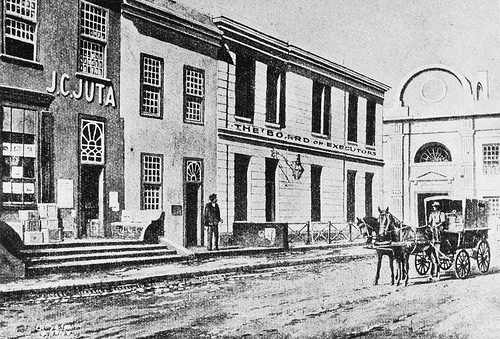 J. C. Juta & Co bookseller Wale Street, Cape Town